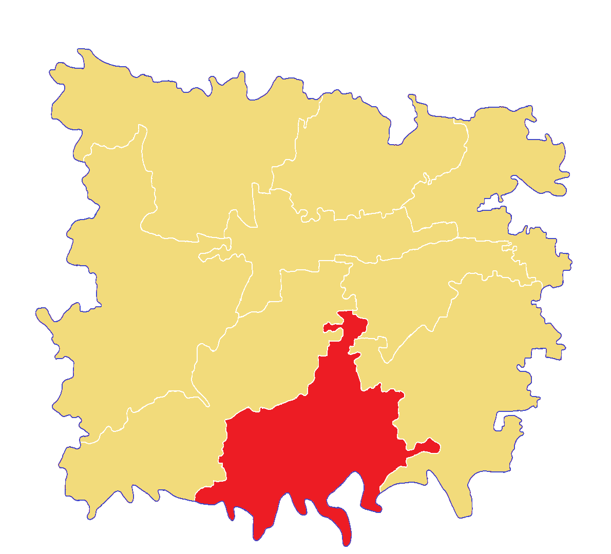 Location of Pailgaon Union in Jagannathpur Upazila